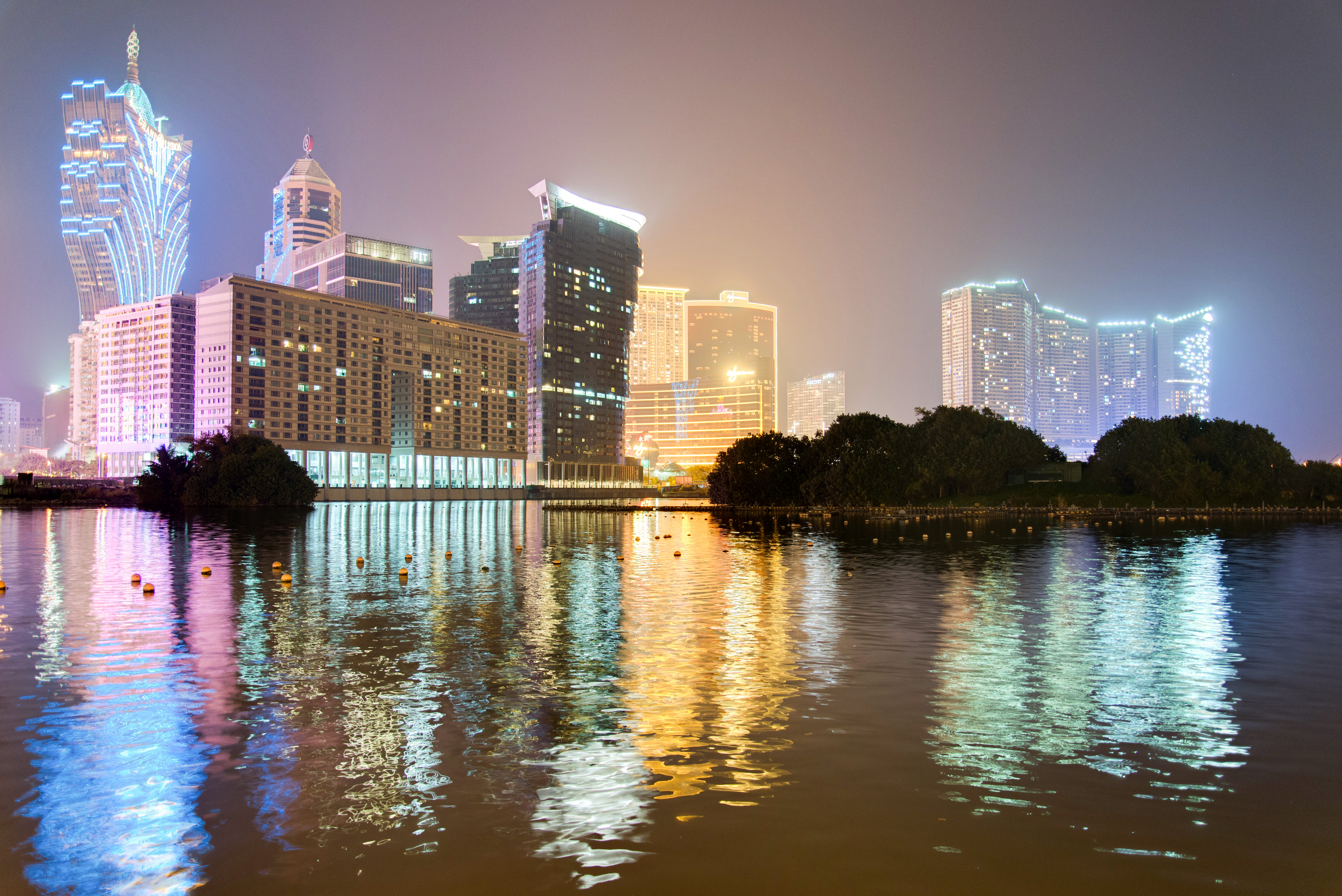 Macau